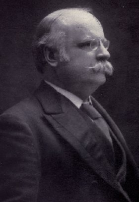 Charles Joseph Doherty. Le très honorable Charles Joseph Doherty C.P., C.R. (11 mai 1855-28 juillet 1931) fut un avocat, directeur de banque et homme politique fédéral du Québec. Title: A history of Quebec, its resources and people, Vol. 2 Creator: Sulte, Benjamin, 1841-1923, Fryer, C. E, David, L.-O. (Laurent-Olivier), 1840-1926 Publisher: Montreal : Canada History Co. Date: 1908 Possible Copyright Status: NOT_IN_COPYRIGHT